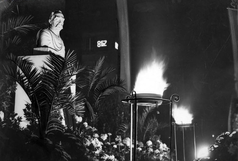 Manifestation at Plac Wolności in Poznań, May 1937. Sculpture of Józef Piłsudski (d. 1935) visible.